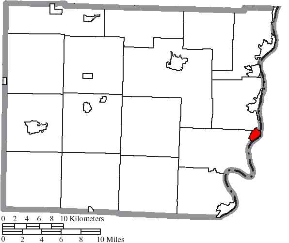 Map of the municipal and township boundaries of Belmont County, Ohio, United States, as of the 2000 census, with the location of the village of Shadyside highlighted. Township borders are shown only in unincorporated areas in order to differentiate incorporated and unincorporated areas more clearly.